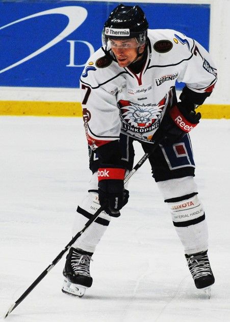 Ice hockey player Magnus Johansson of Linköping HC in 2013.